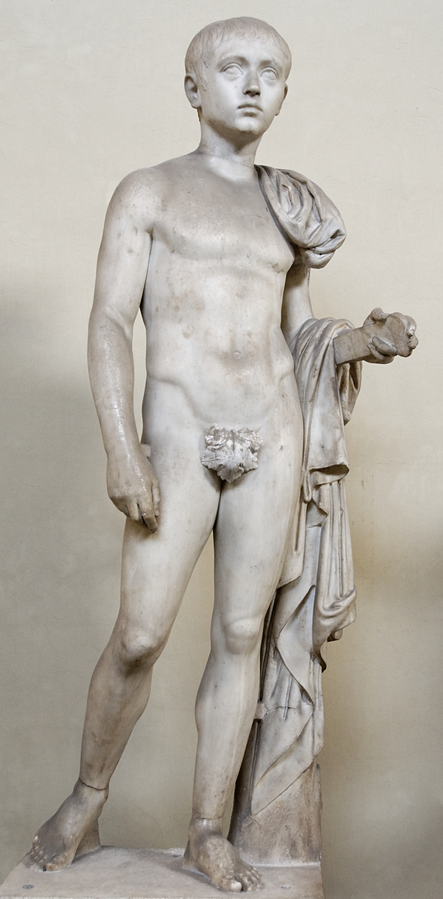 Young boy. Marble, Roman artwork of the mid 2nd century AD (body); the 3rd century AD head does not belong to the body.